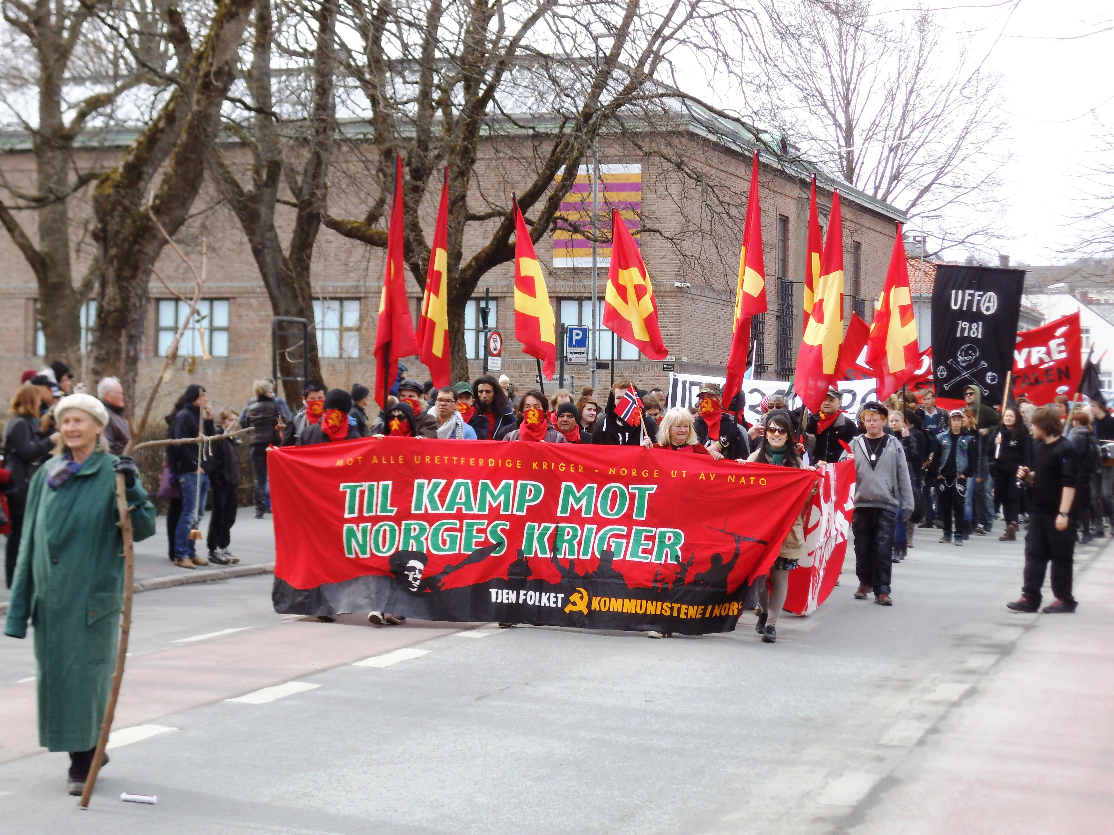 The political group Tjen Folket (transl: Serve the People) are participating in the International Workers' Day in Trondheim 2013.